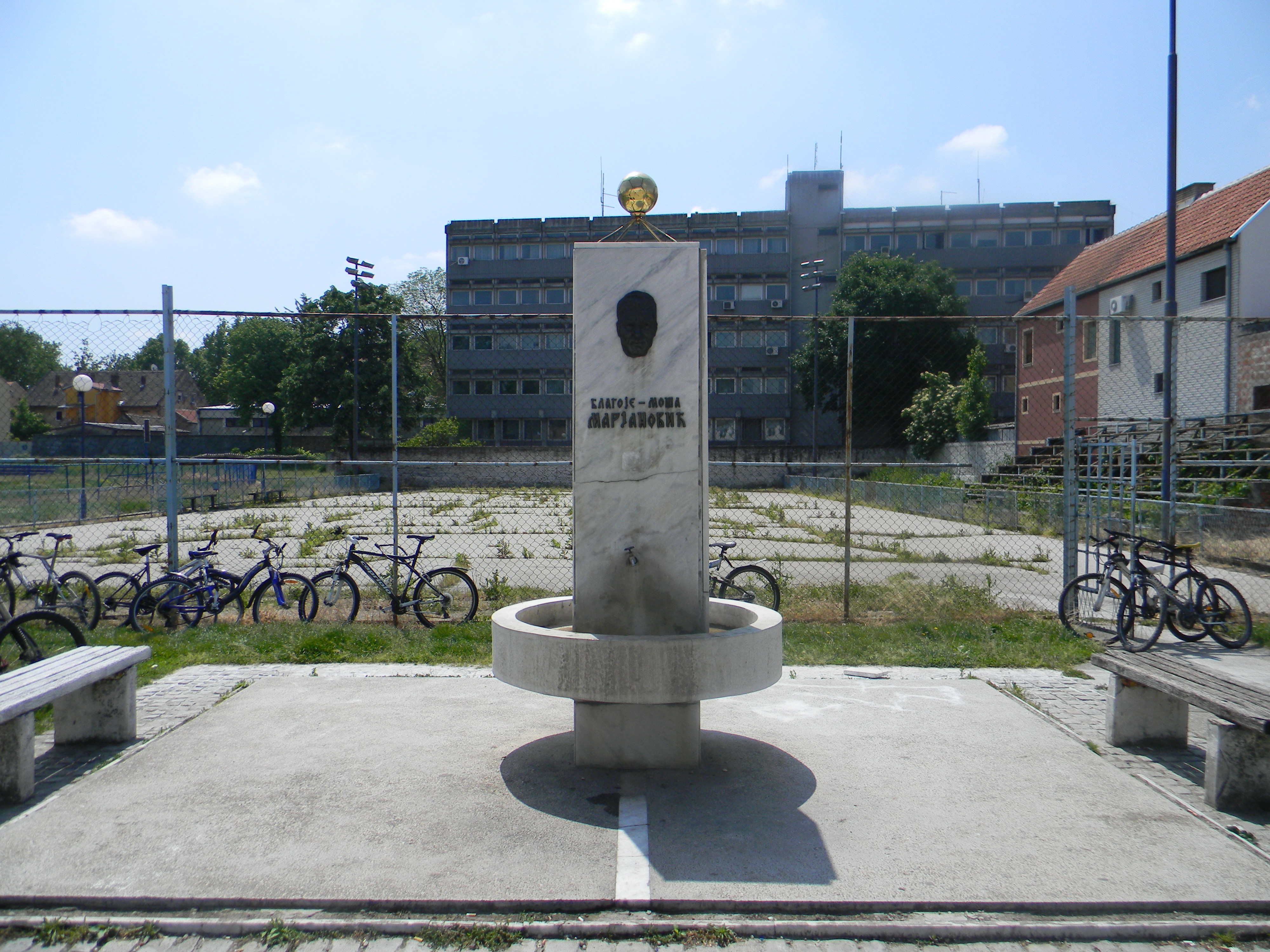 Blagoje Moša Marjanović monument in Gradski stadion of Pančevo